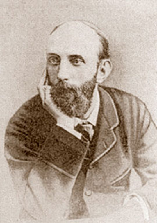 Photograph of John Melhuish Strudwick (1849-1937)